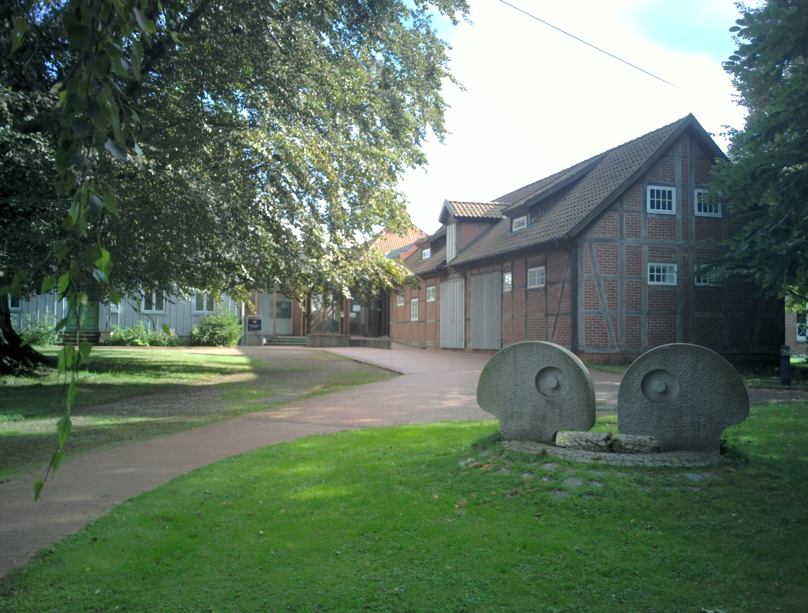 Main entrance of the courthouse in Wennigsen (Deister)